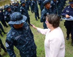 Ambassador Kubiske puts a badge in the arm of one of the new members of the Honduran National Police's Tigres Unit. Ambassador Lisa Kubiske attended the graduation of nearly 200 Honduran National Police Tigres (Inter-Agency Special Security Response Unit) at the Ministerio Publico's Centro de Instruccion Antidrogas in Lepaterique.